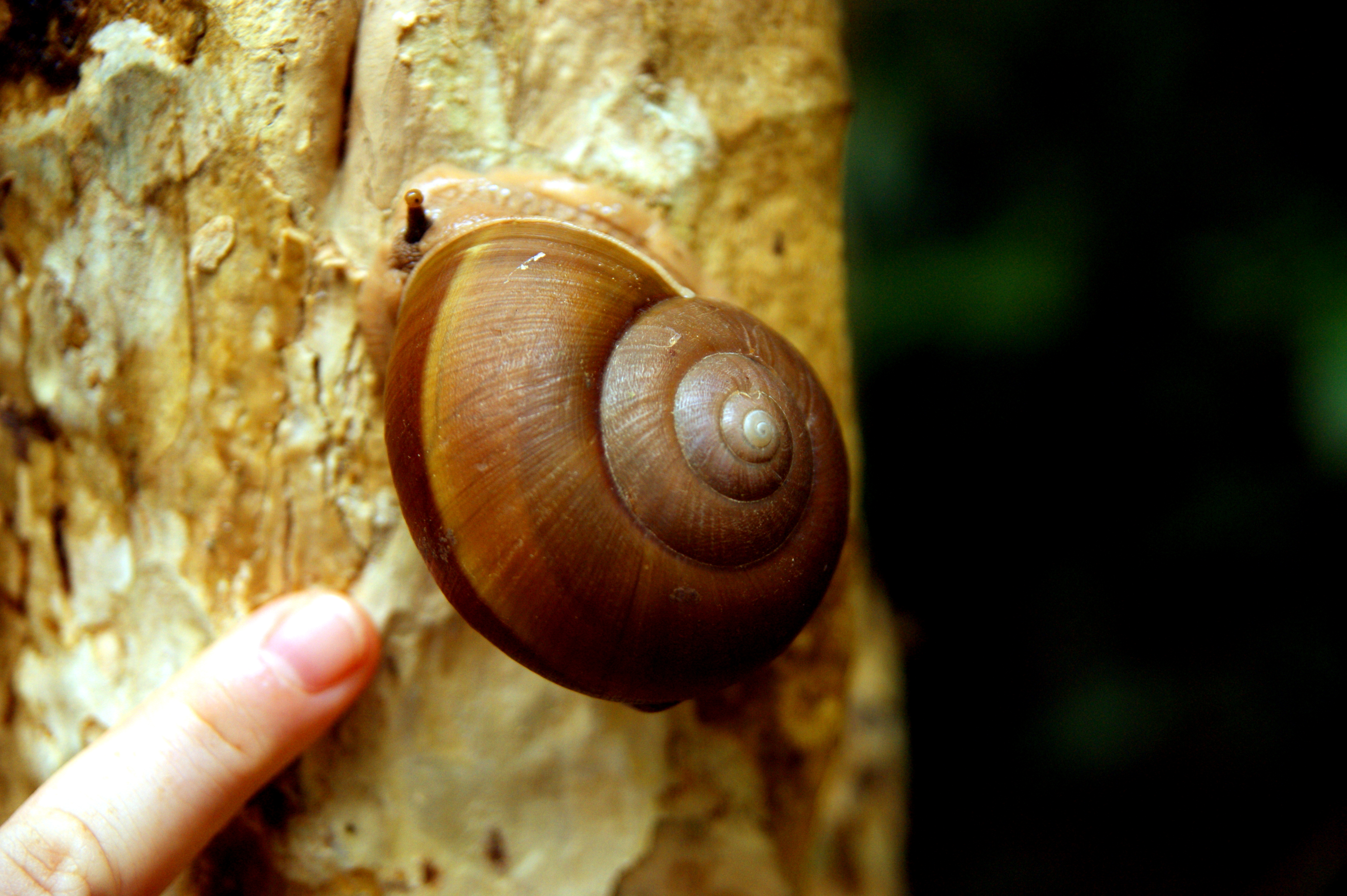 an unidentified gastropod from Siem Reap Province, Cambodia